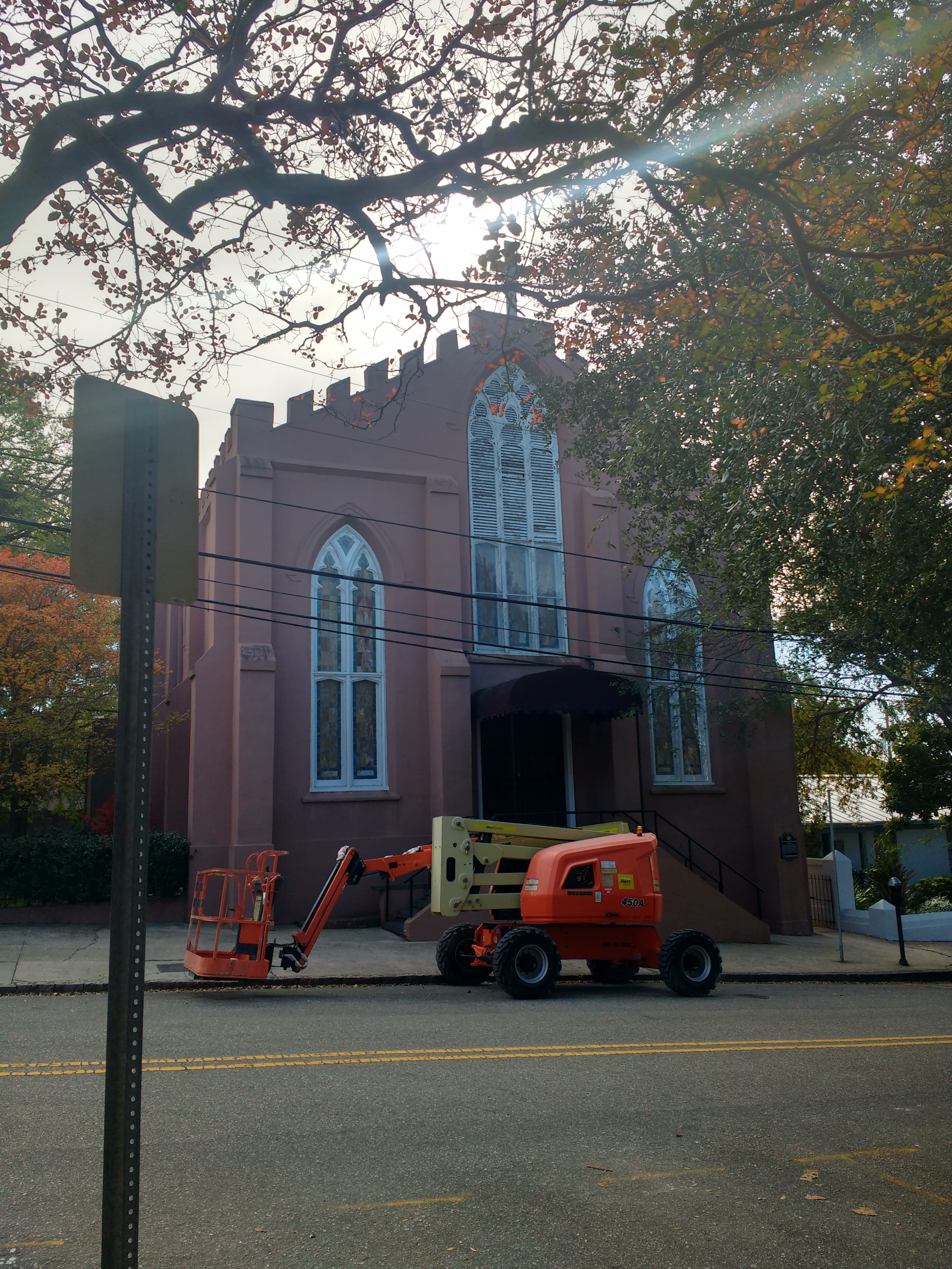 Saint Thomas Preservation Hall, Formerly Saint Thomas the Apostle Catholic Church, in downtown Wilmington, North Carolina.